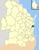 Location of the Local Government Area in Queensland